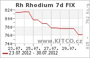 Graf Světová cena Rhodium v korunách Týdenní kurz 30.7.2012 z